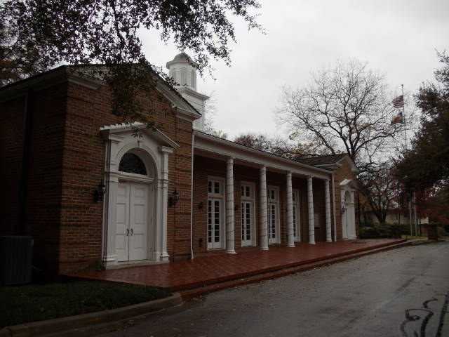 Westover Hills Town Hall